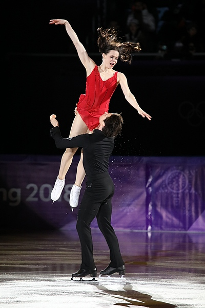 Gala exhibition at the 2018 Winter Olympics